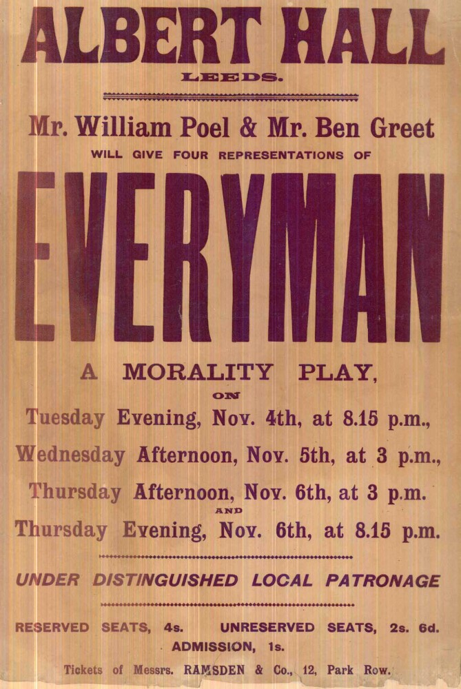 Poster for a 1902 presentation of the play Everyman